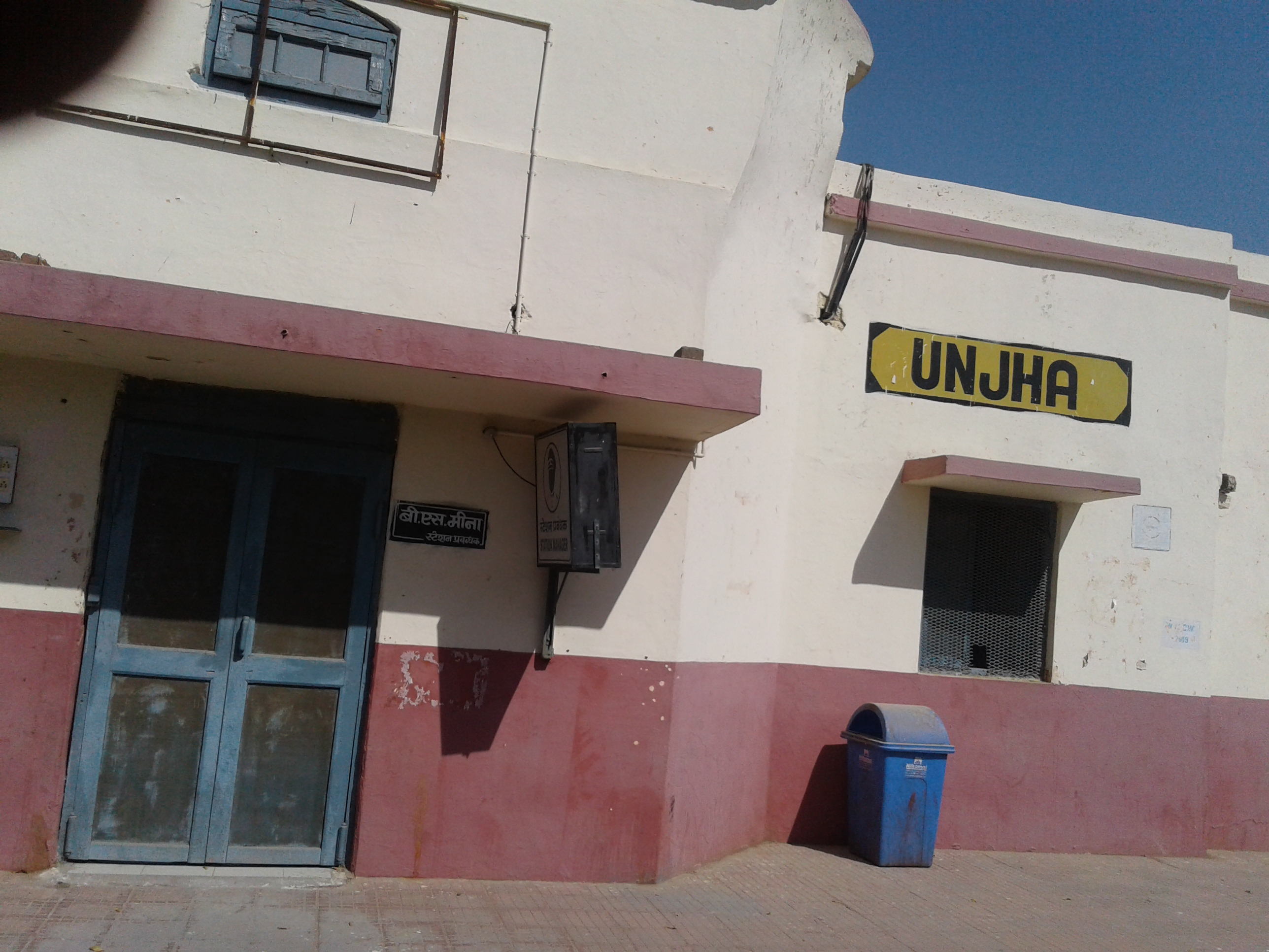 Unjha Railway station is situated in Unjha, Gujarat. Station code of Unjha is UJA. Here are some trains that are passing through Unjha railway station like Ashram Express, Ashram Express, Ddr Aii Sf Exp, Aii Ddr Express, Bgkt Adi Express, Adi Bgkt Express, Barmer Ac Exp, and many more ગુજરાતી: ઊંજા રેલવ સ્ટેશન